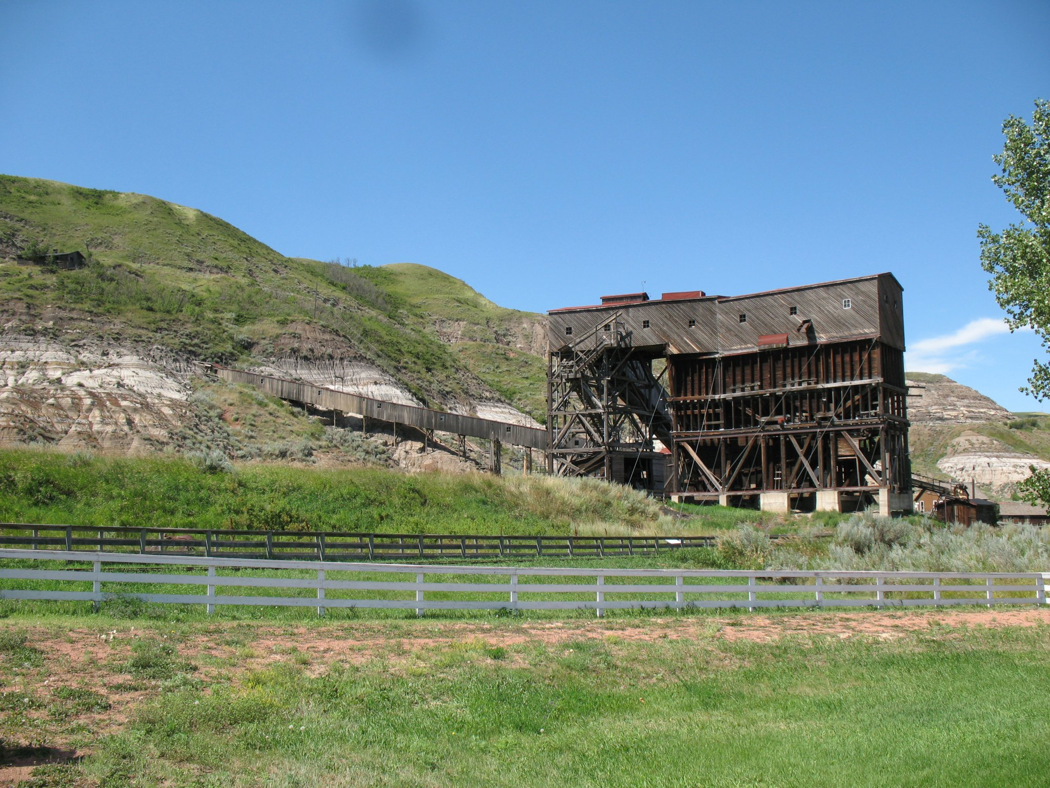 Atlas Coal Mine tipple, main conveyor belt, and old blacksmith's shop